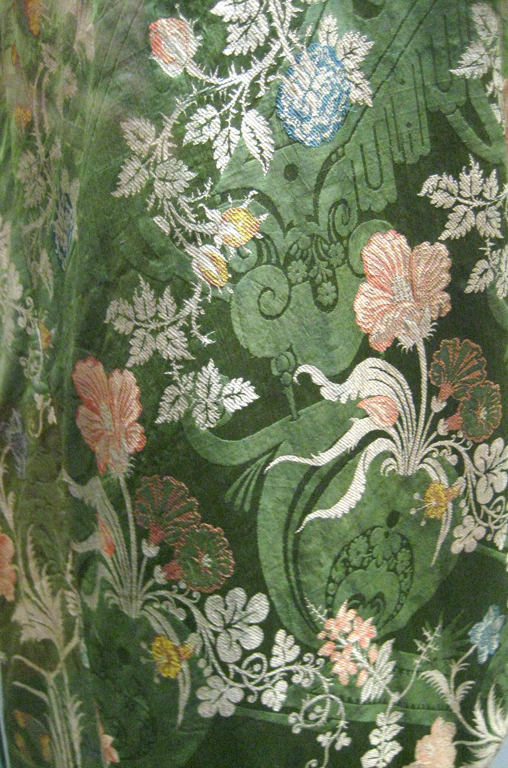 Dressing gown of Emperor Peter I. Russia (?). 1st part of the 18th century. Italy (damask) - the beginning of the 18th century. Taffeta, cotton wool, quilted. GIM